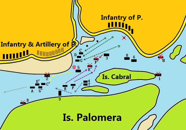 Battle of Riachuelo during War of Triple Alliance